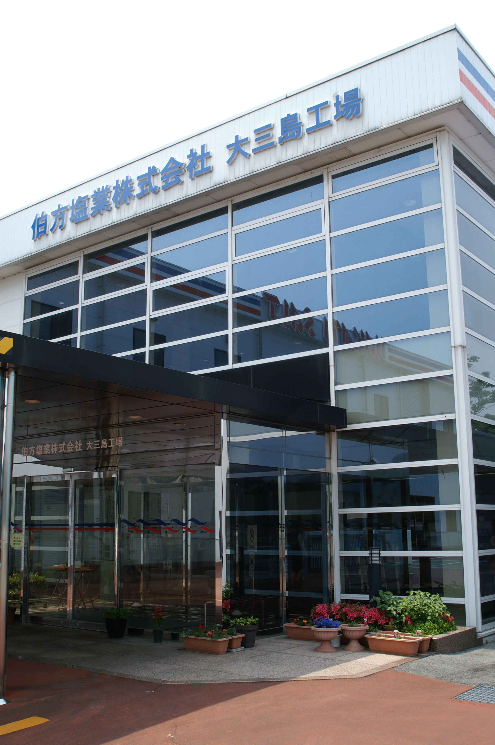 Hakata Salt Mfg.Inc. Omishima Plant in Imabari, Ehime pref., Japan.